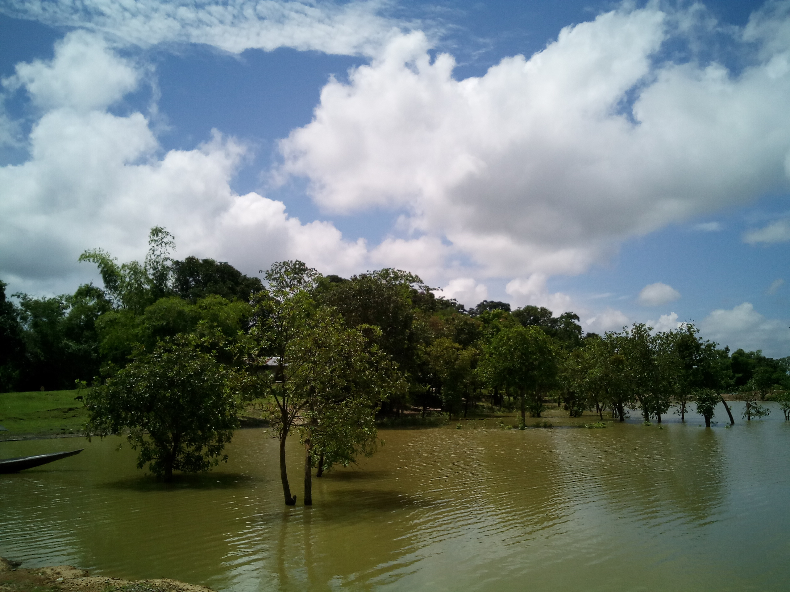 I clicked this with my phone camera from Chatla